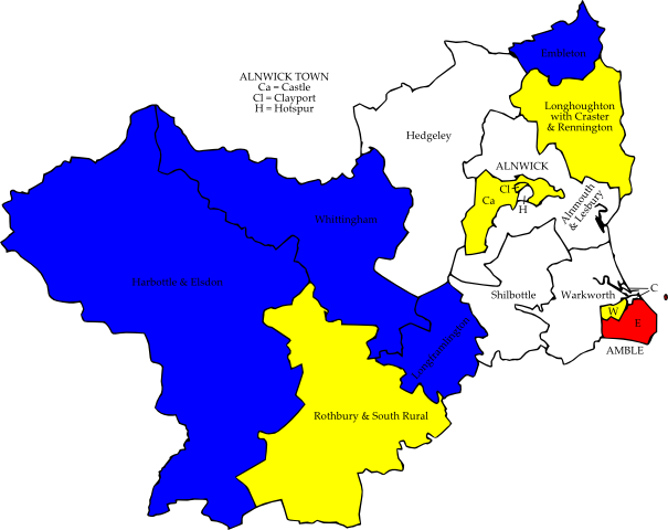 A map of the results of the 2007 Alnwick Council election. Colour legend by wards won: Liberal Democrats Conservative party Independent Labour